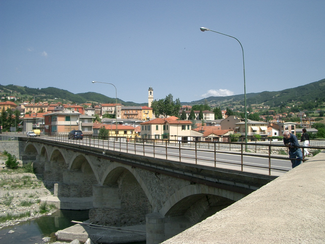 Wiew of Borgotaro near San Rocco bridge